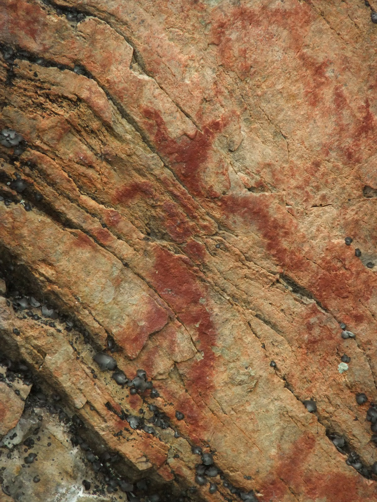 A shaman(?) depicted in Värikallio Stone Age rock painting in Suomussalmi, Finland.